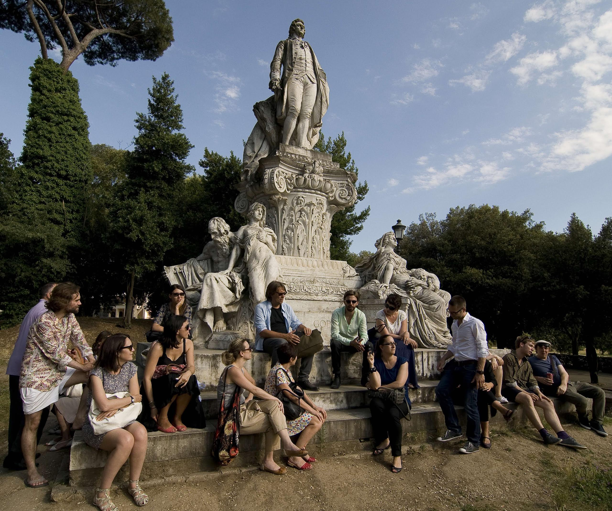 Valerio Rocco Orlando, Promenades, 2012. Performance, MACRO, Rome